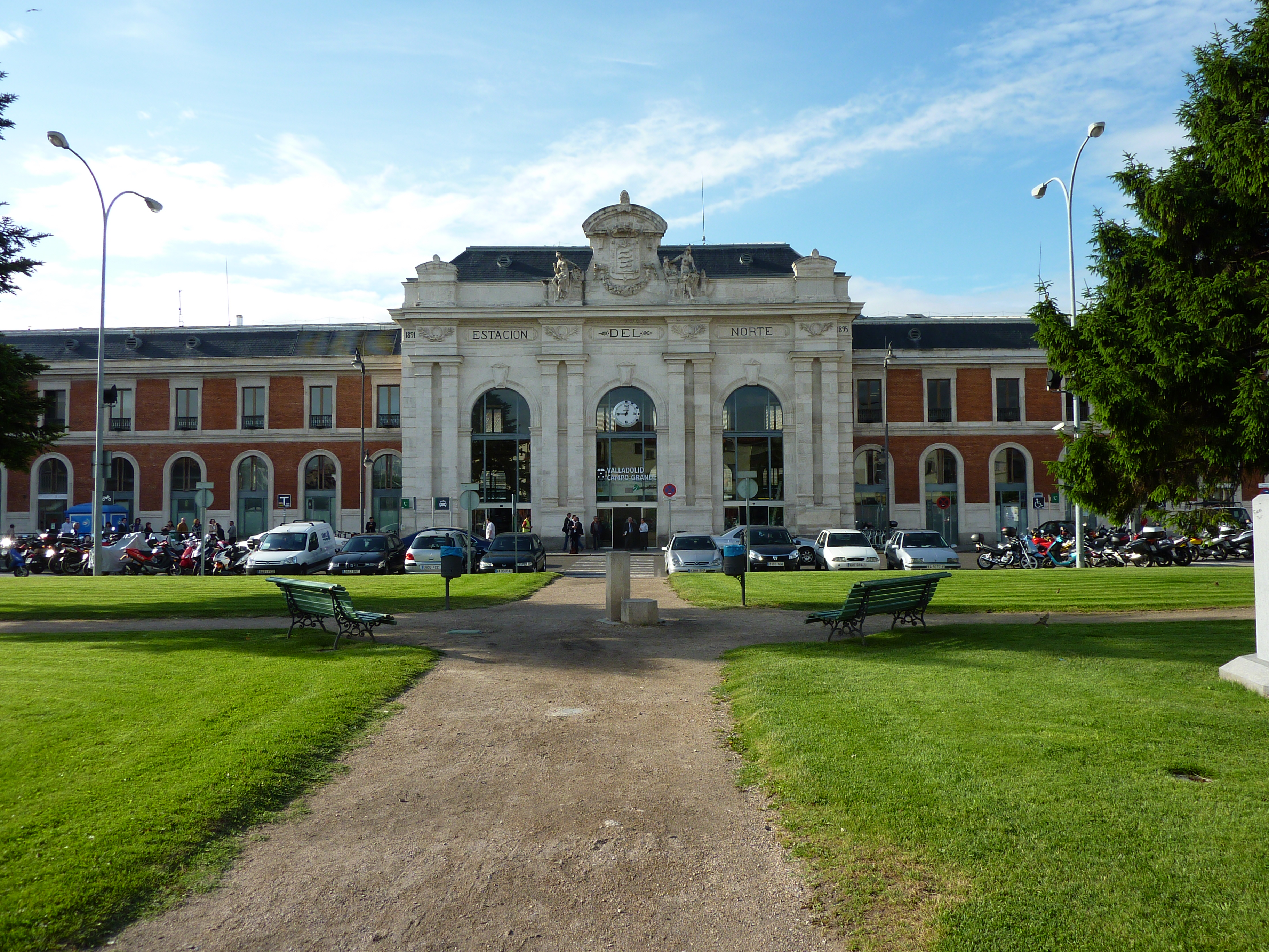 Railway station Valladolid Campo Grande in Castile and León, Spain